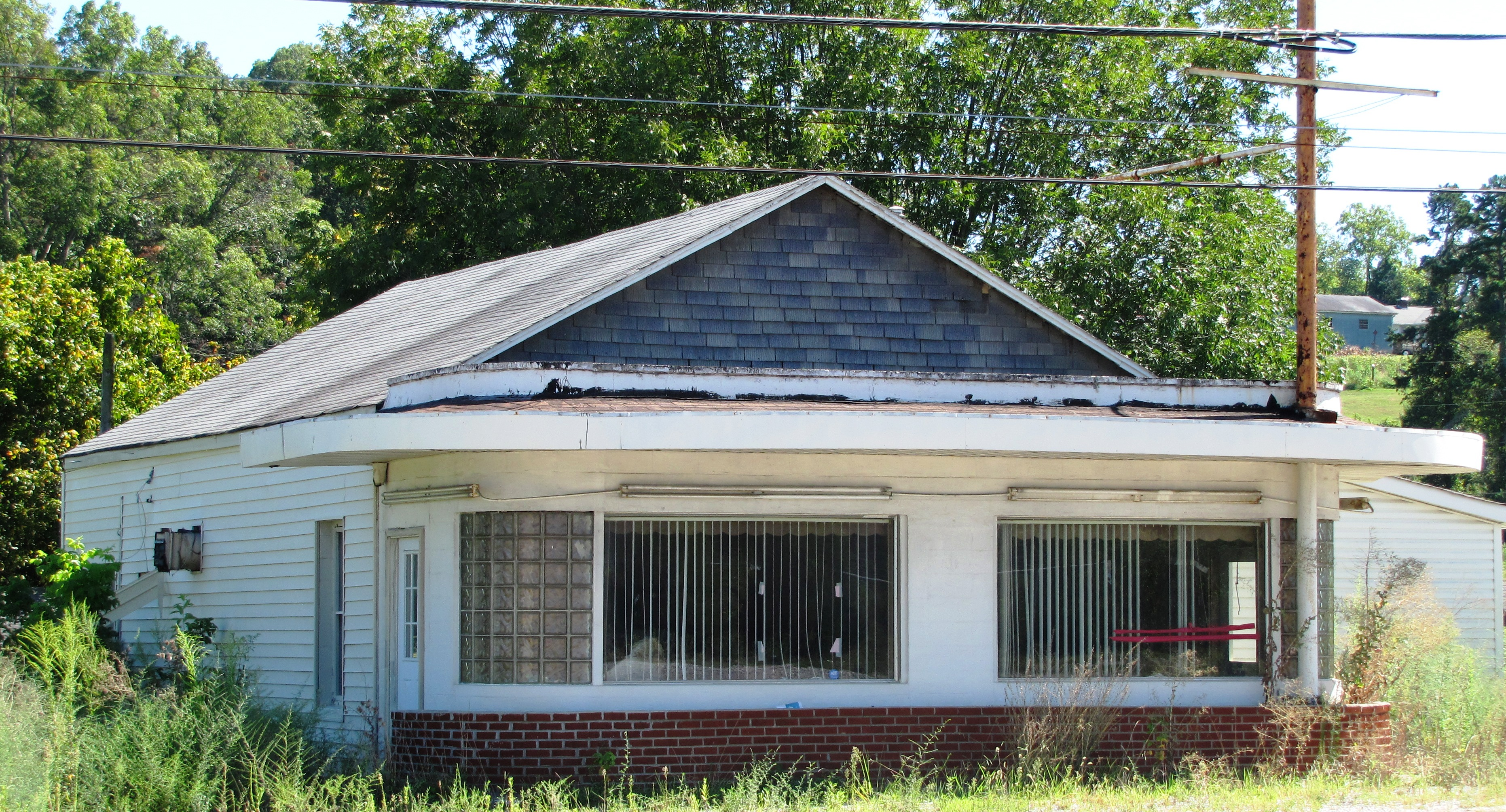 The old Court Cafe building on Kingston Pike in Farragut, Tennessee, USA, just east of the Knox-Loudon county line. This restaurant was constructed during the 1930s or 1940s to serve tourists passing through the area during Kingston Pike's "Dixie Lee Highway" period. It finally closed sometime around 2008.